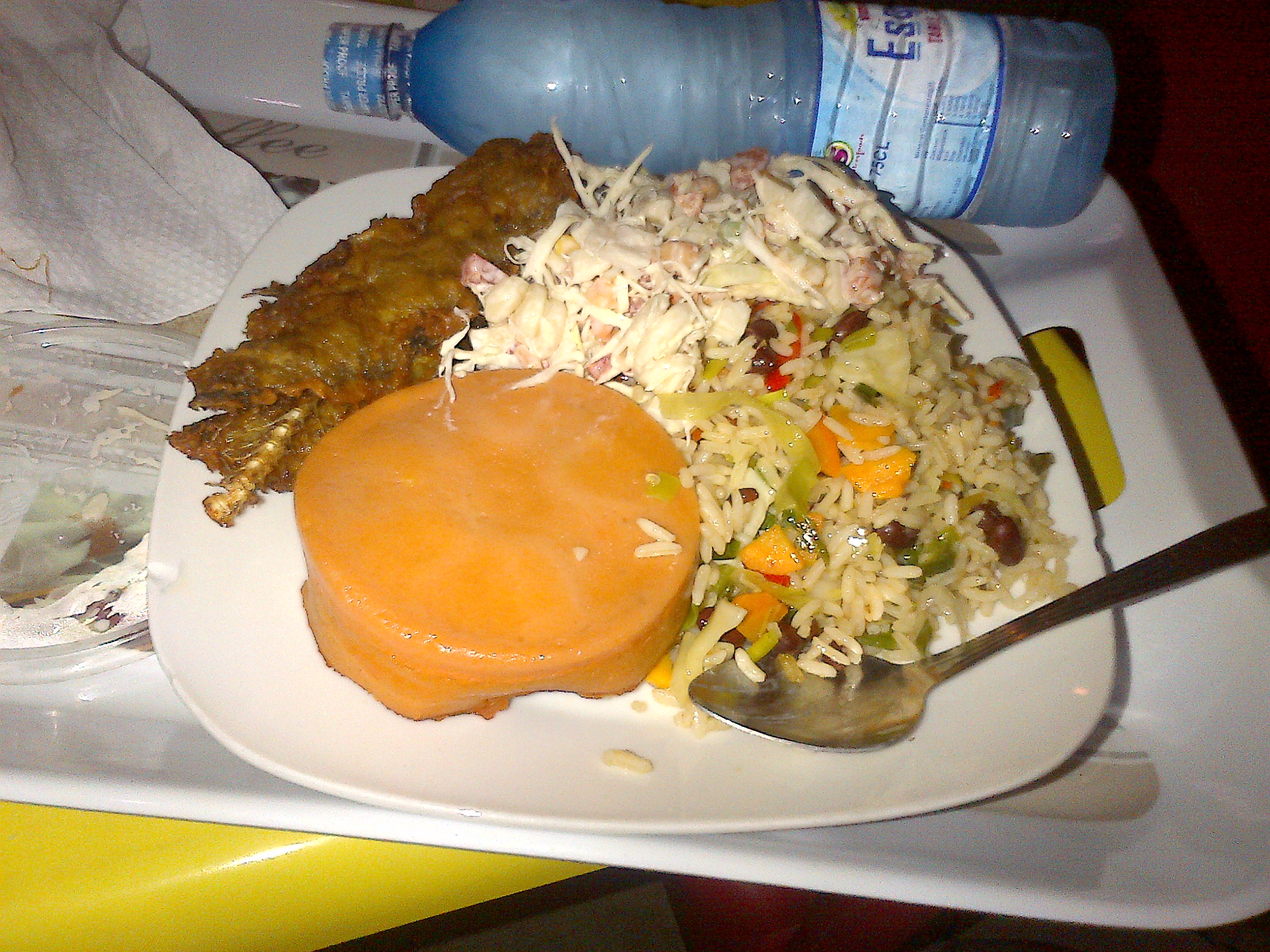 Jamaican Rice served with grilled Fish and Mixed Salad and moi moi (Baked beans) This is an image of food from Nigeria